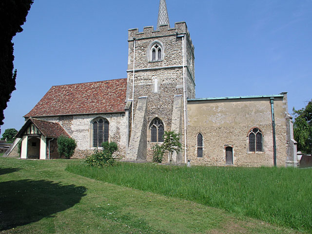 Duxford, St John's.